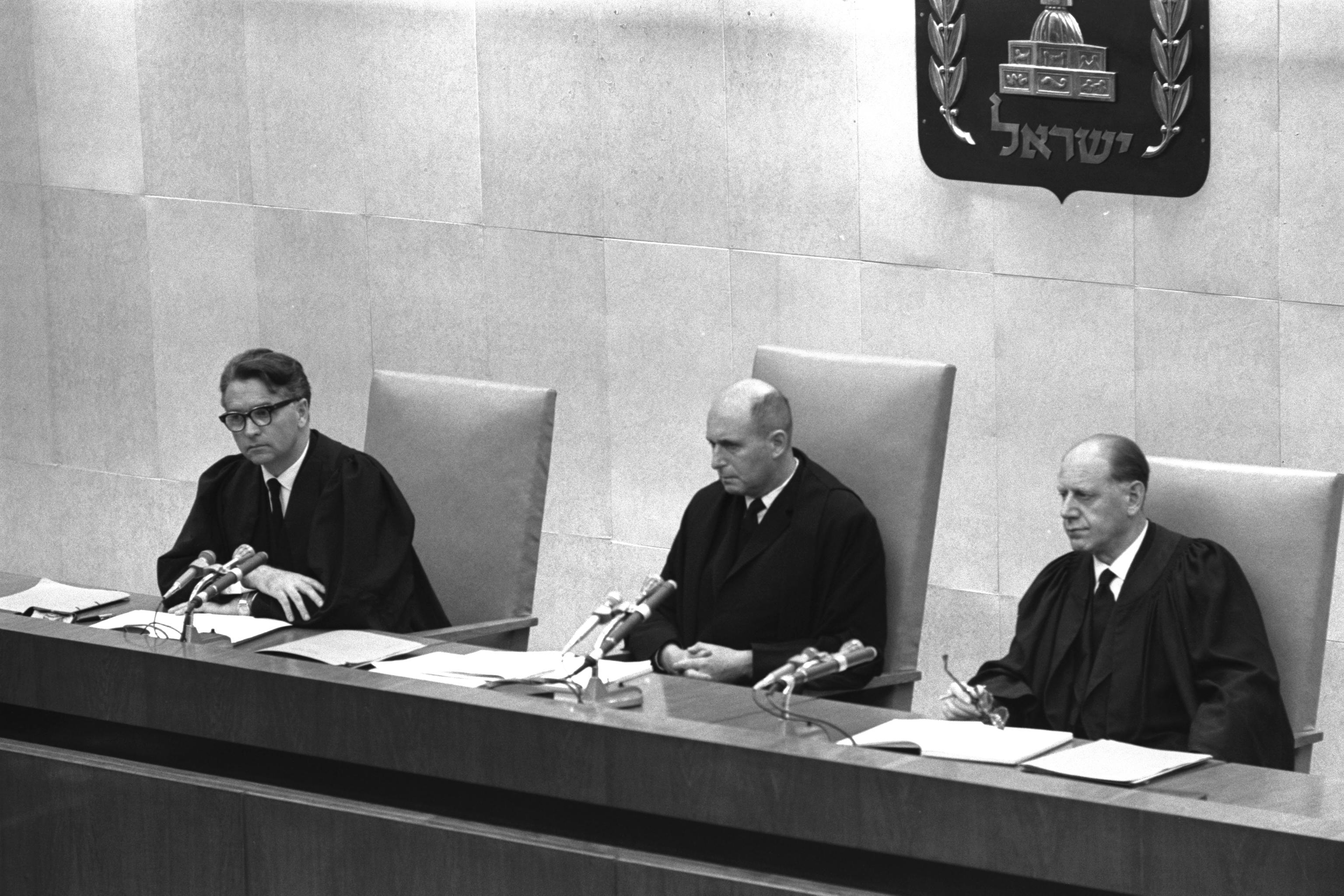 Adolf Eichman's trial judges (left to right) Benjamin Halevi, Moshe Landau, and Yitzhak Raveh